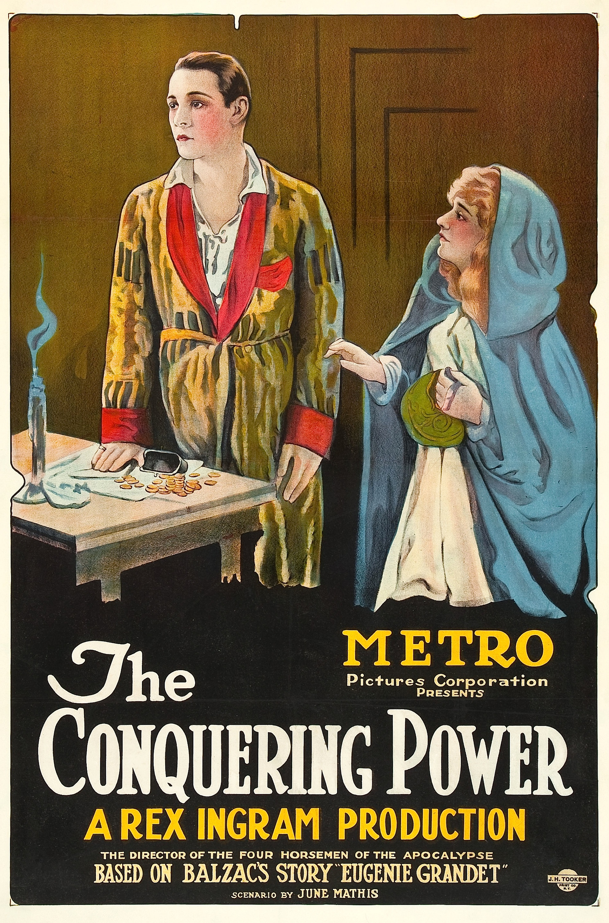 The Conquering Power is a 1921 American silent romantic drama directed by Rex Ingram and starring Rudolph Valentino, Alice Terry, and Ralph Lewis. This is a movie poster for the film.